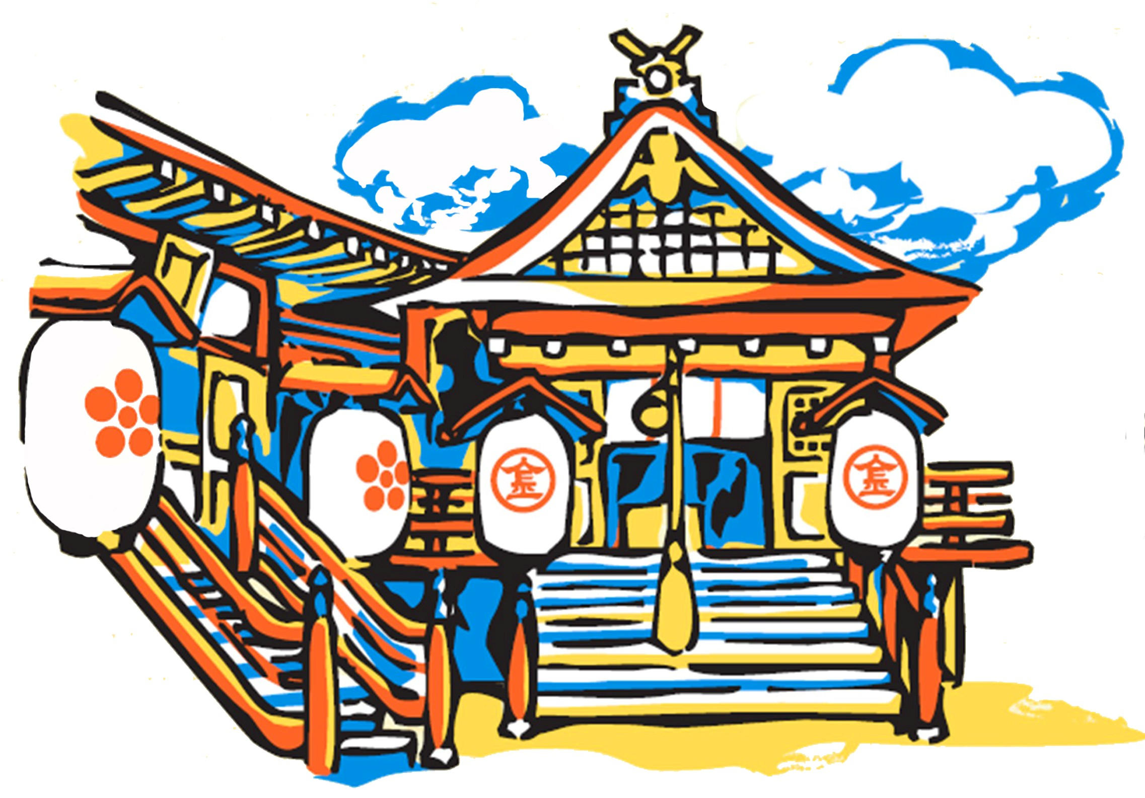 Design of the shrine's ema